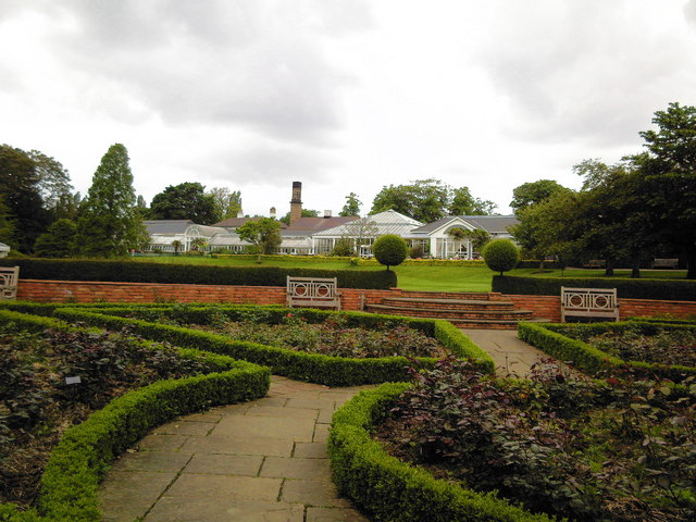 Birmingham Botanical Gardens, rose garden. Looking towards the conservatory, cafe and terrace.